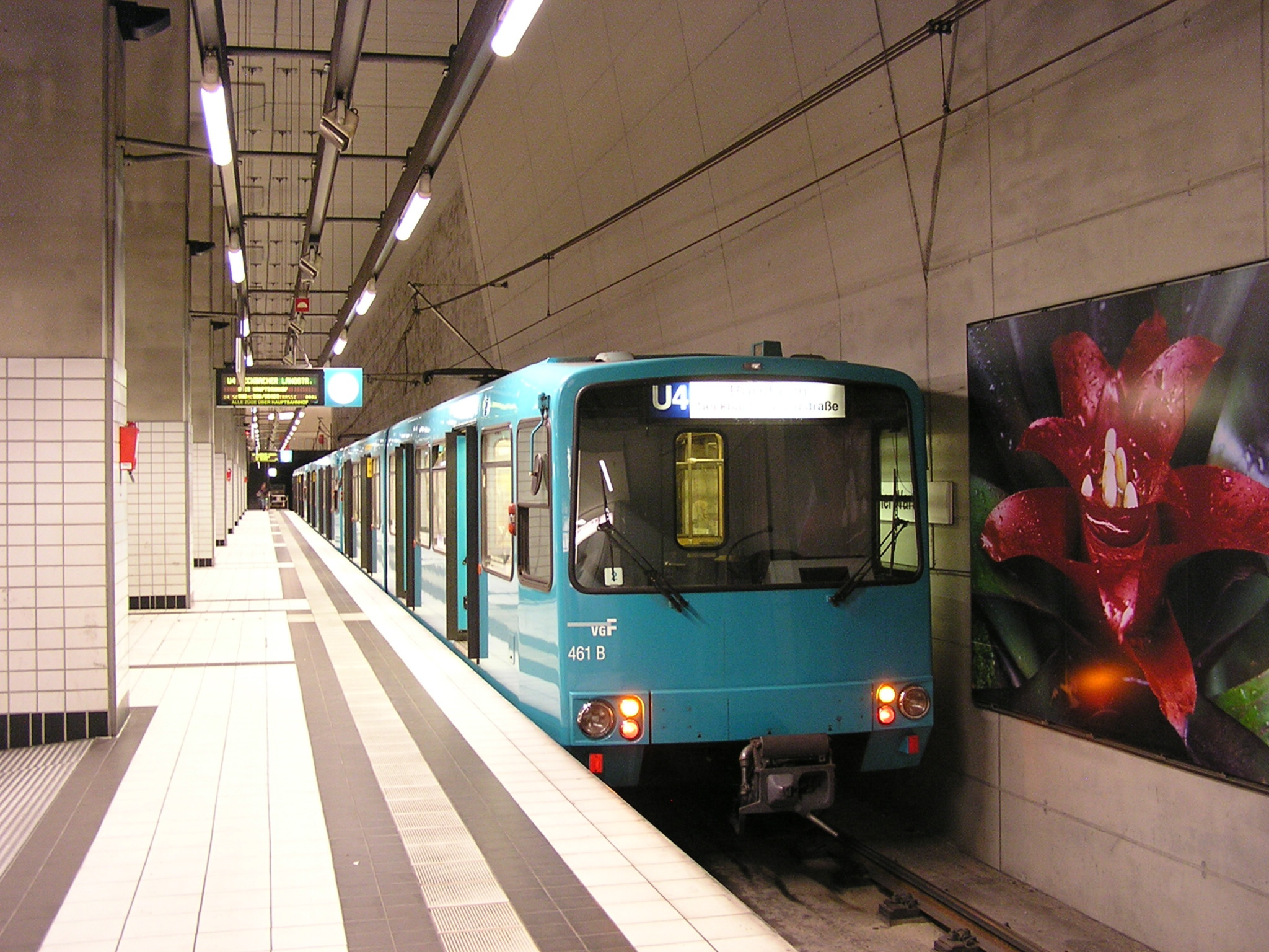 U3-train as line U4 in the station Bockenheimer Warte